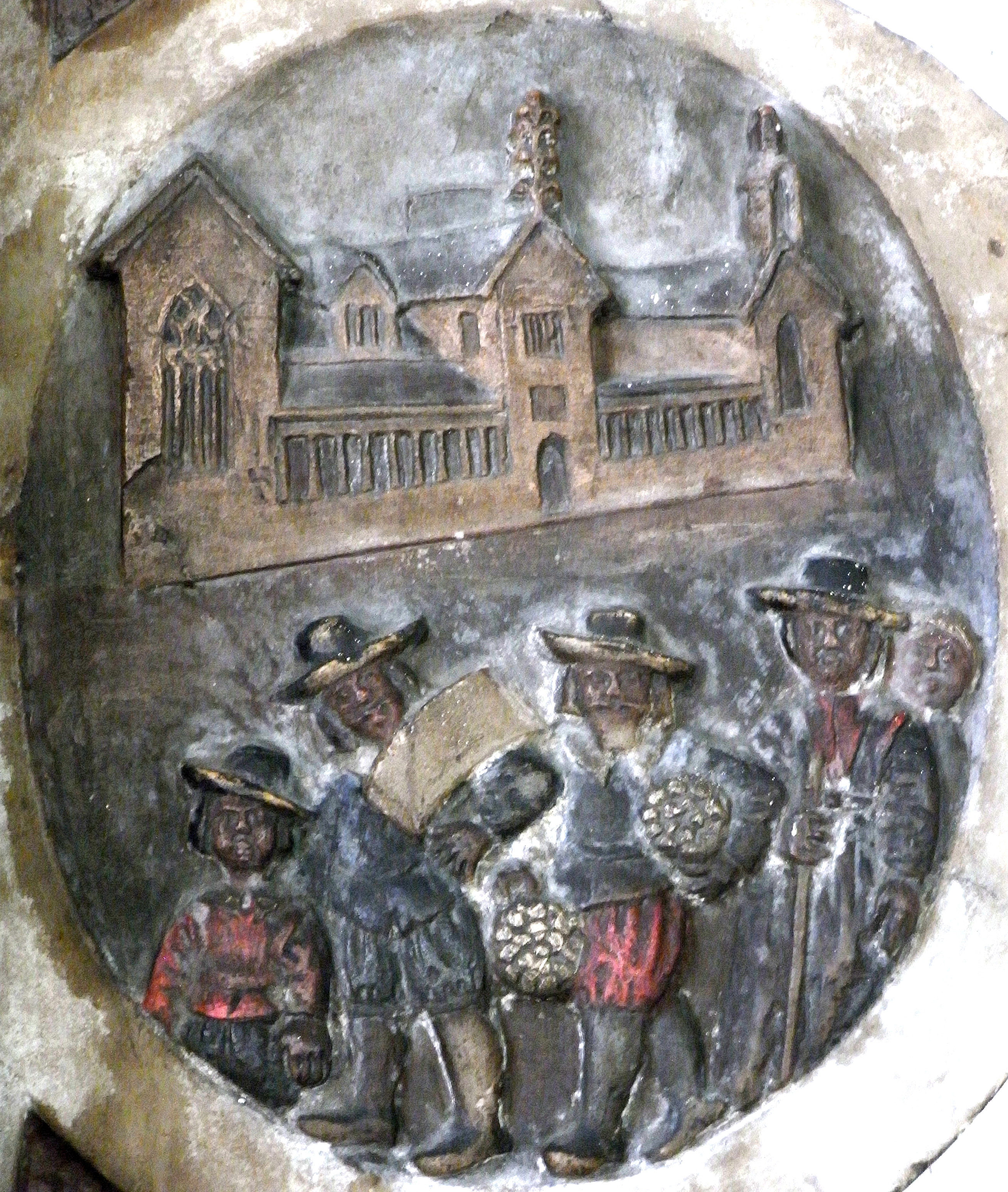 Penrose Almshouses, Lichadon Street, Barnstaple, Devon, founded in 1627 by will of John Penrose (d.1624). Detail of small relief sculpture on monument in St Peter's Church, Barnstaple to Richard Beaple (1564-1643), a later benefactor